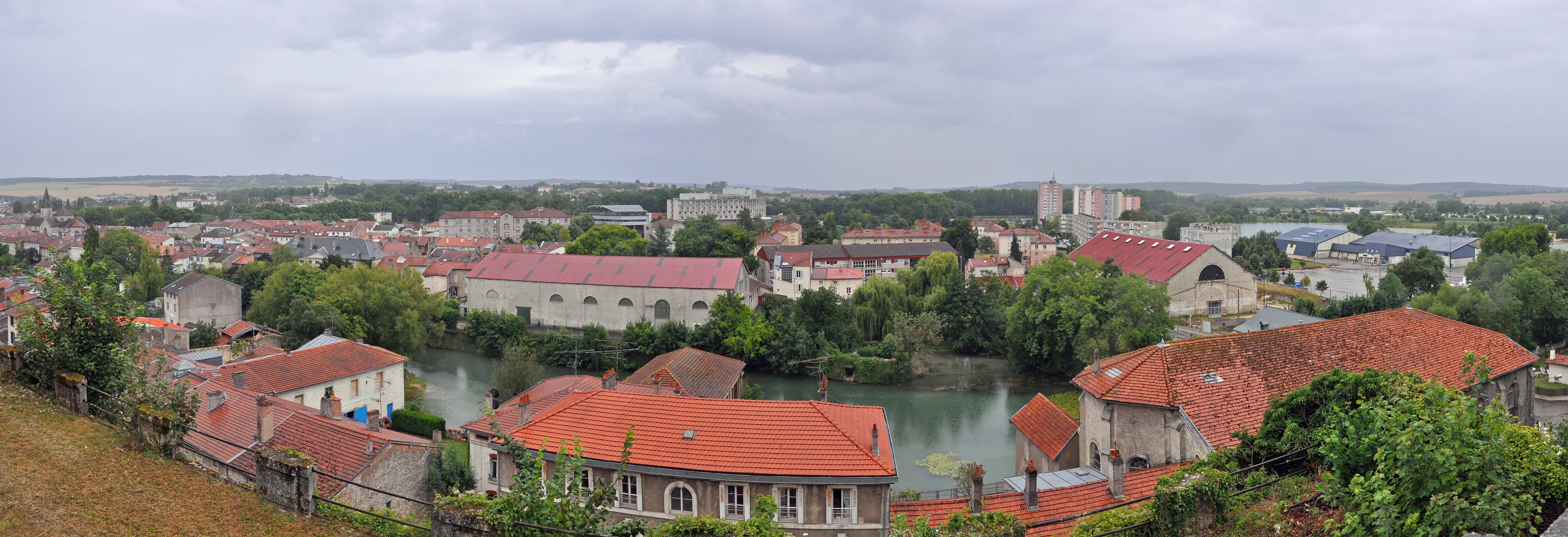 Verdun (France): panorama of the southern part of the town, on a rainy day